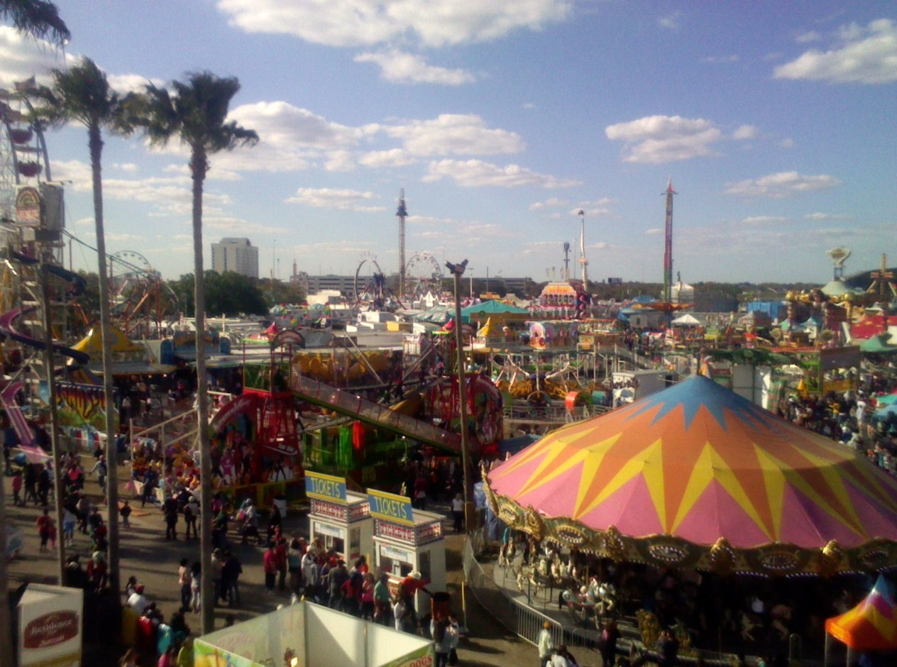 Picture from the Sky Ride of the 2013 Midway of over 100 rides. Ranging from Ferris Wheels, to the 135 Ft Mega Drop.